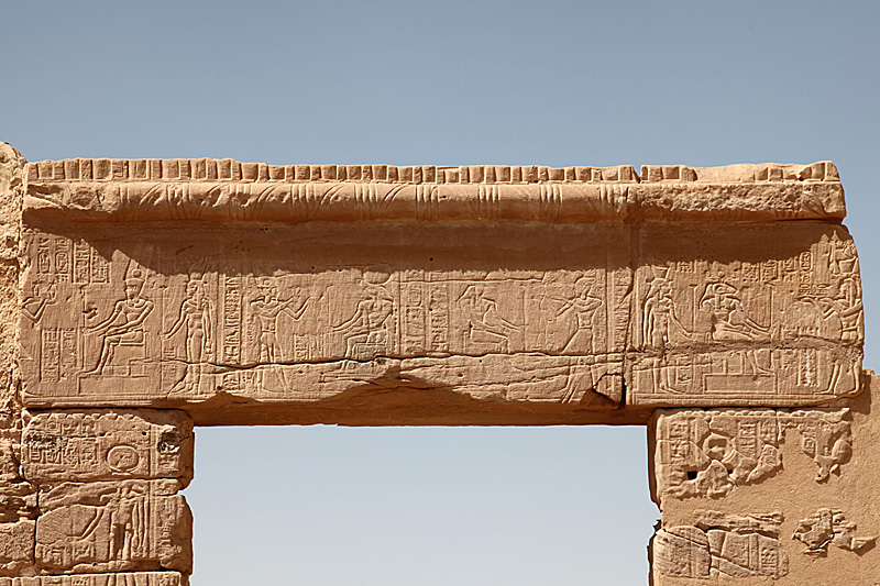 Lintel at the west wall, upper temple of el-Nadura, el-Kharga depression, Egypt